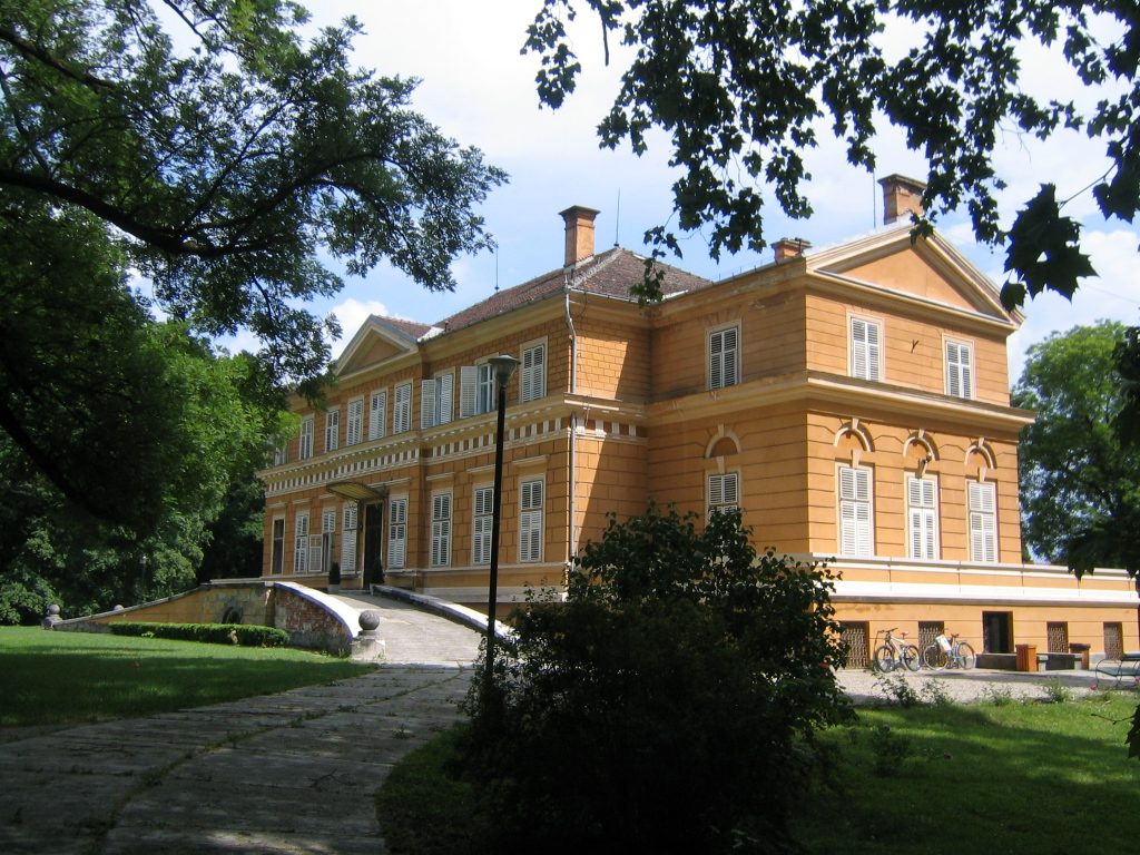 Săvârșin Castle, Arad County, Transylvania, Romania